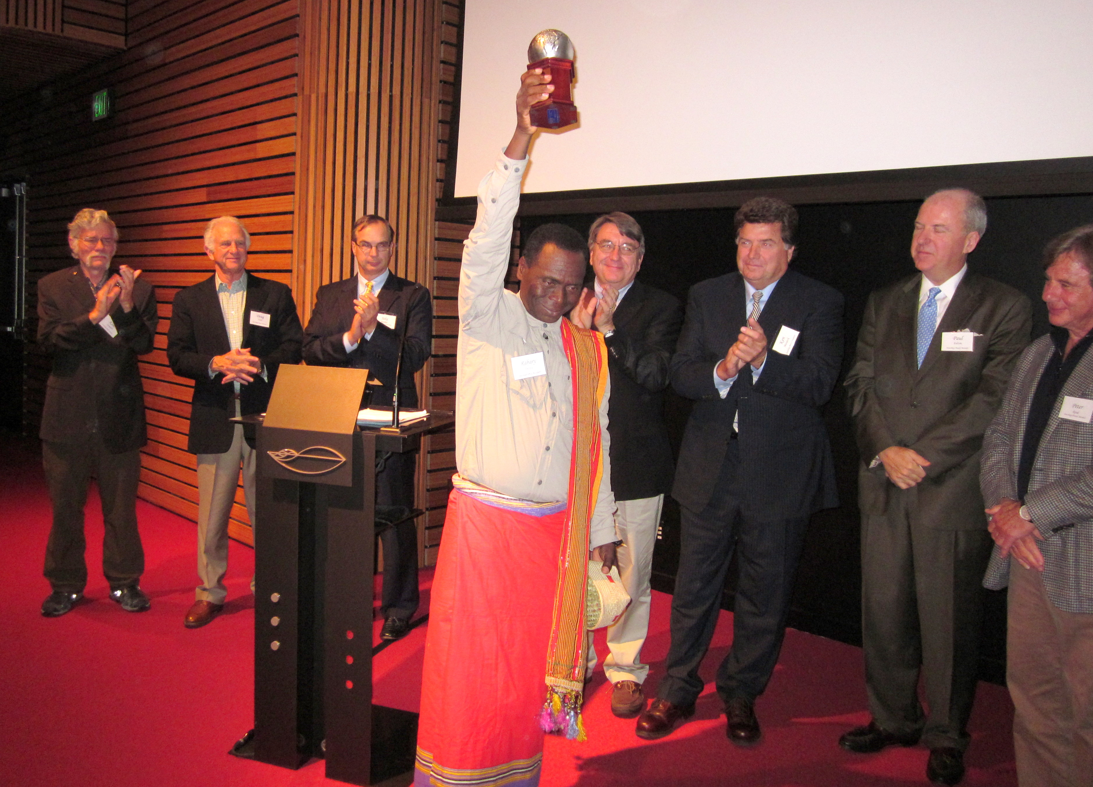 Rabary Desiré of Madagascar receives his Seacology Prize at the David Brower Center in Berkeley, CA in front of the board members